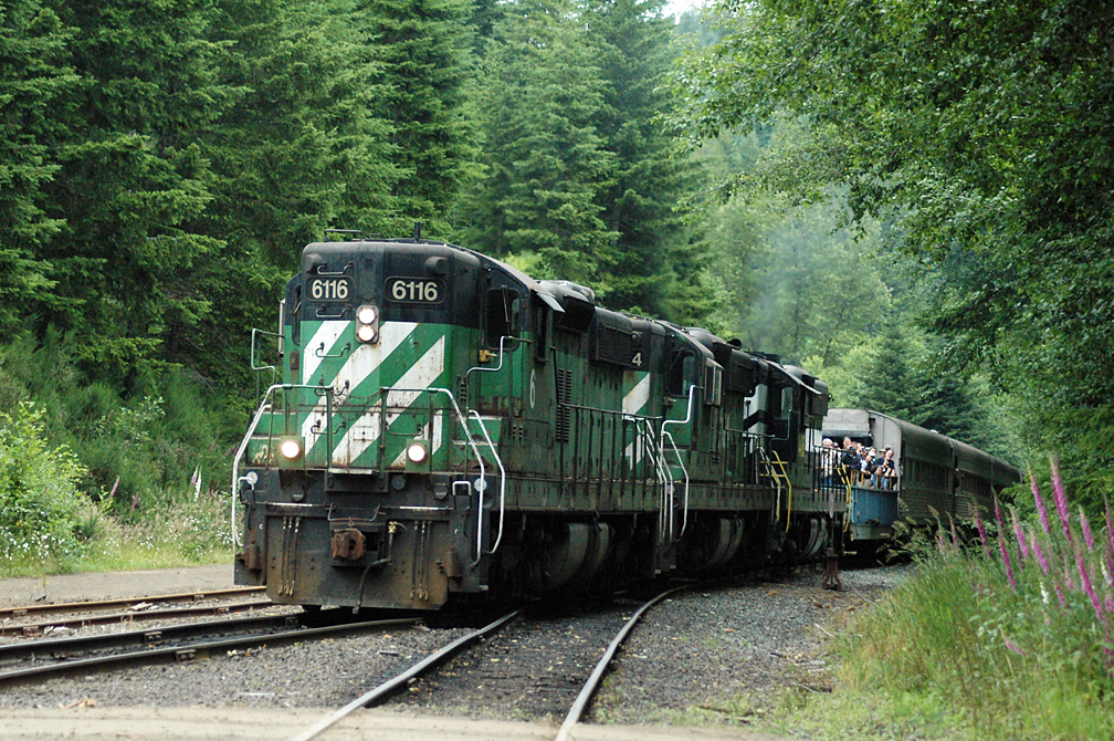 Excursion on the Port of Tillamook Bay RR July 2005 as part of that year's NRHS convention in Portland. Just west of the summit tunnel